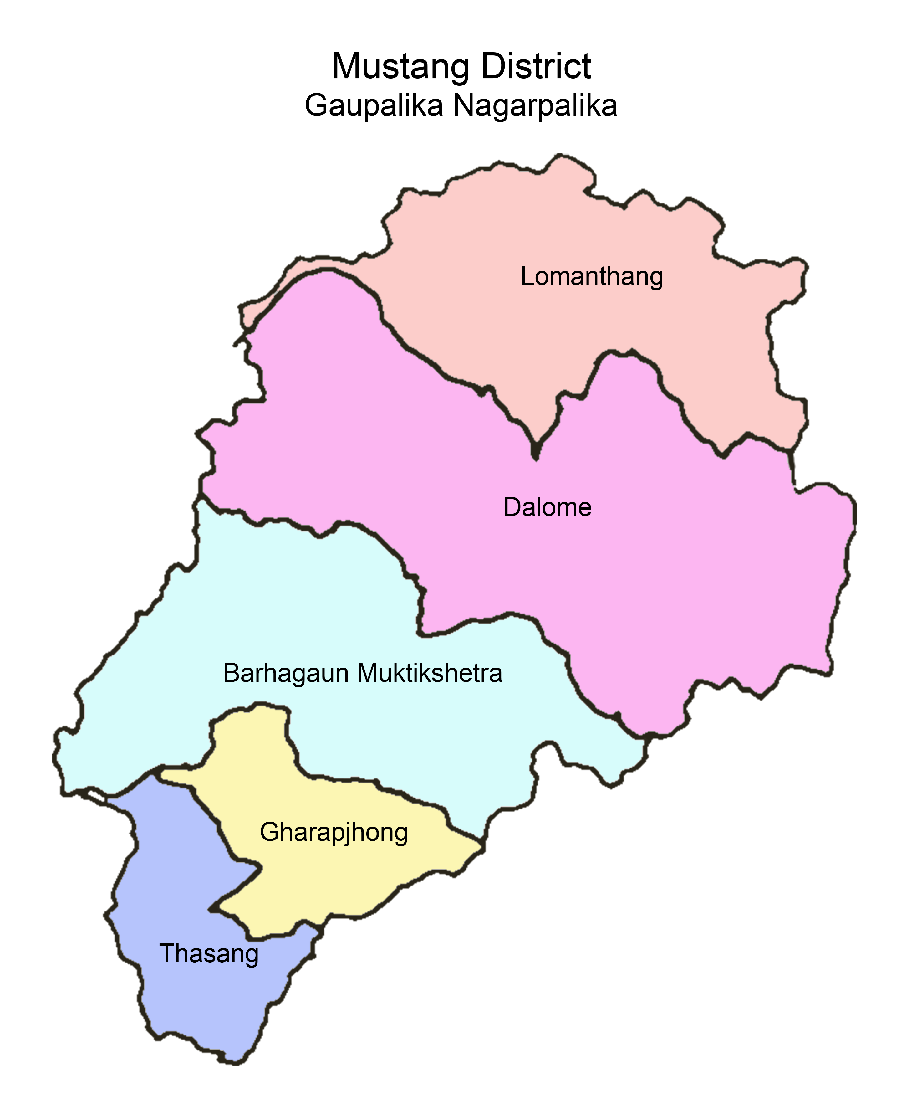 The five Gaupalikas of Mustang District